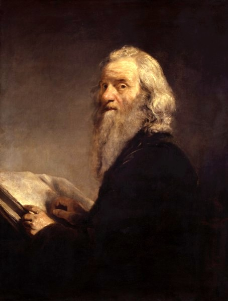 A Jewish Rabbi, Oil on canvas, 91 x 71 cm, R.A. accepted in 1817